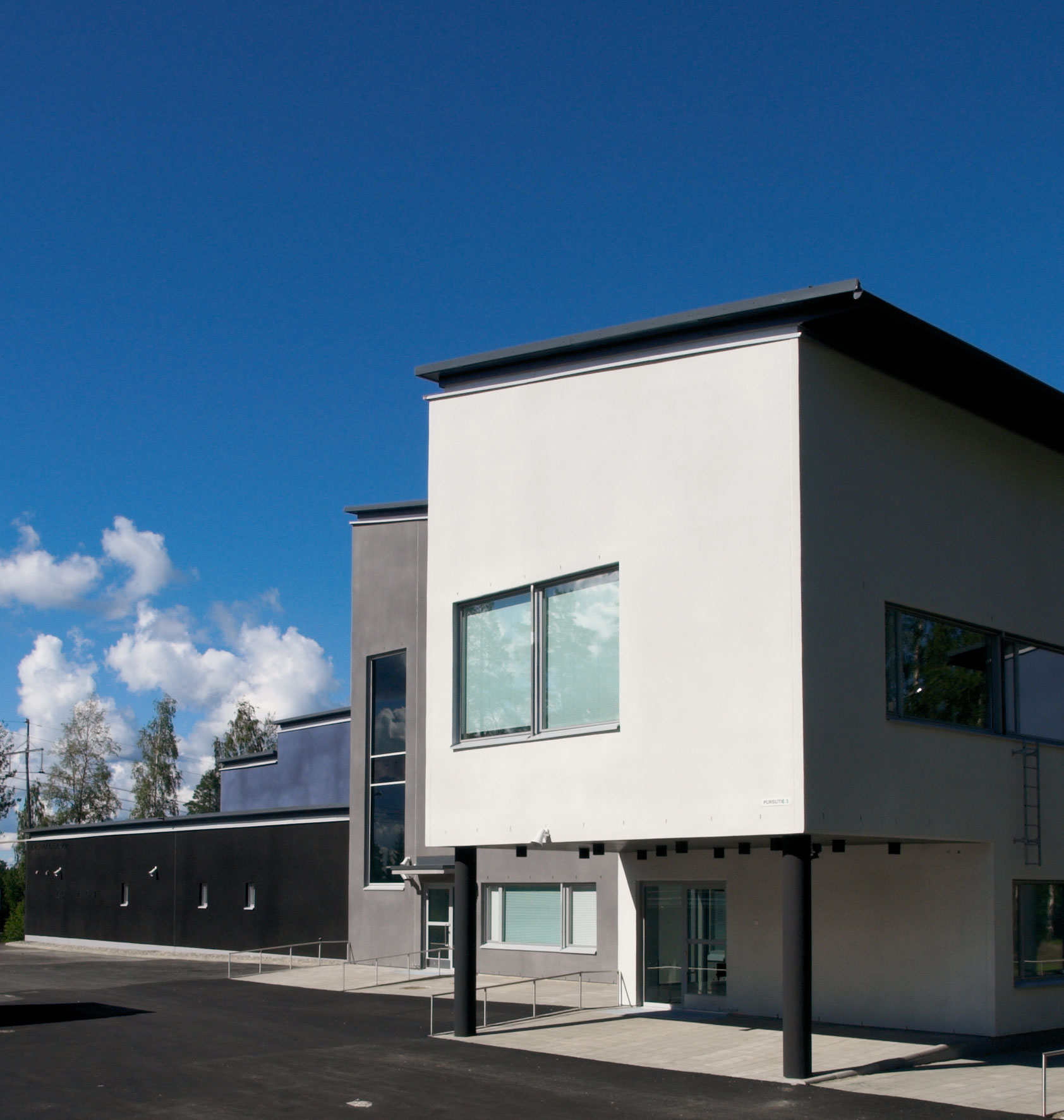 Länsi-Puijo Elementary School in Kuopio, Finland. Built in 2007.